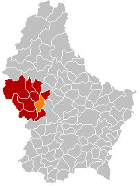 Own edit of Kanton RedangeLocatie.png